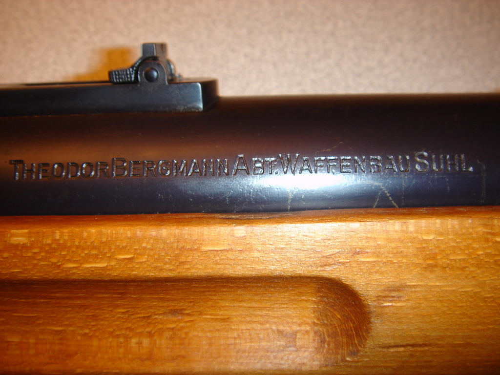 Shoot'in__MP18__theodor-Bergmann-Waffenbau. | Ed. DCB_Shooting